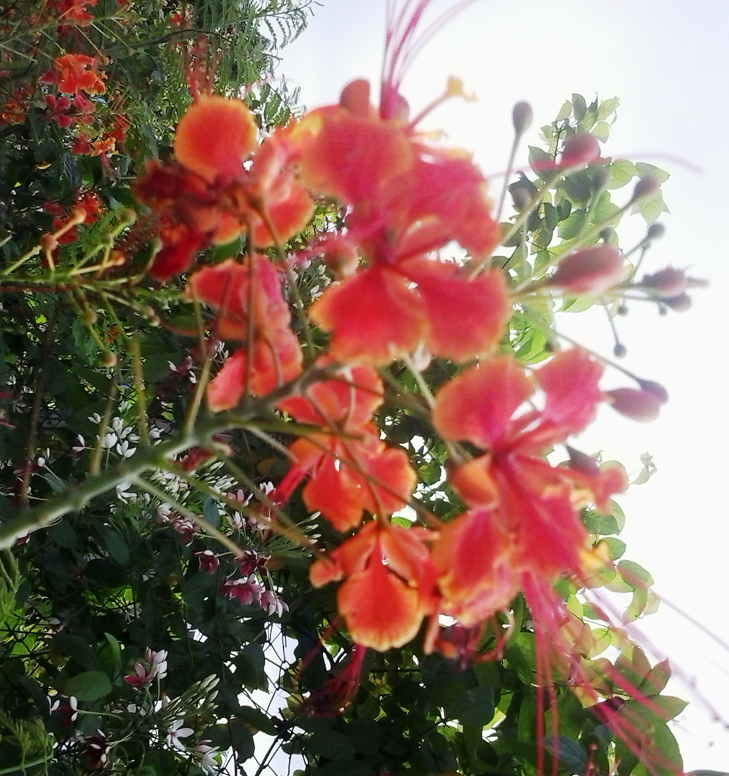 Krishnachura flower